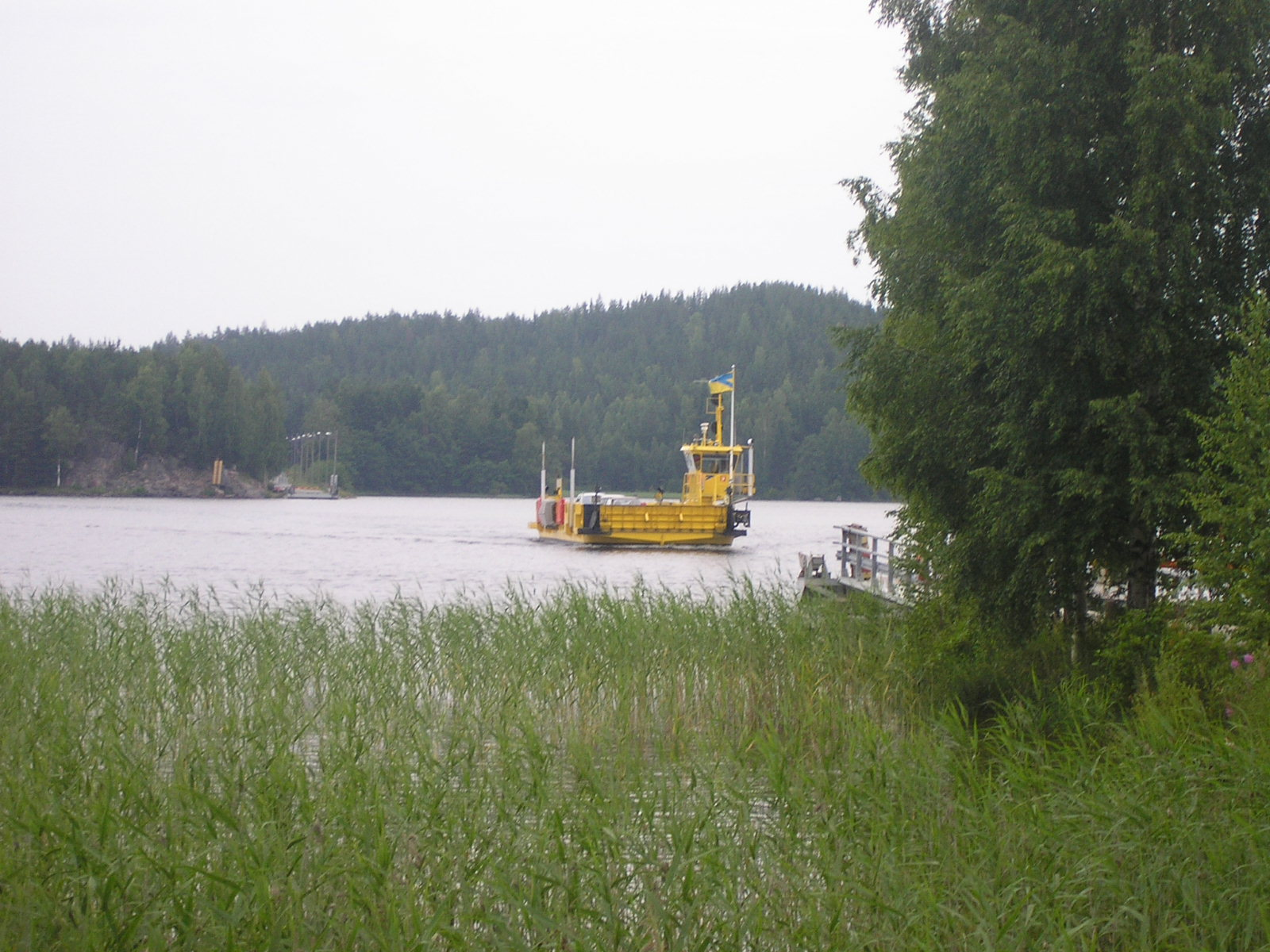 Kietävälä Cable ferry in Saimaa inPuumala, Finland